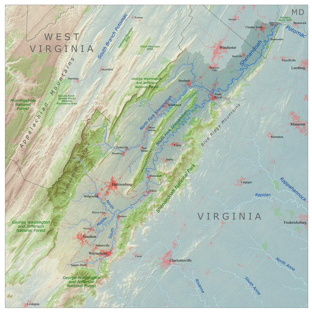 Map of the Shenandoah River drainage basin made using data from the National Map.